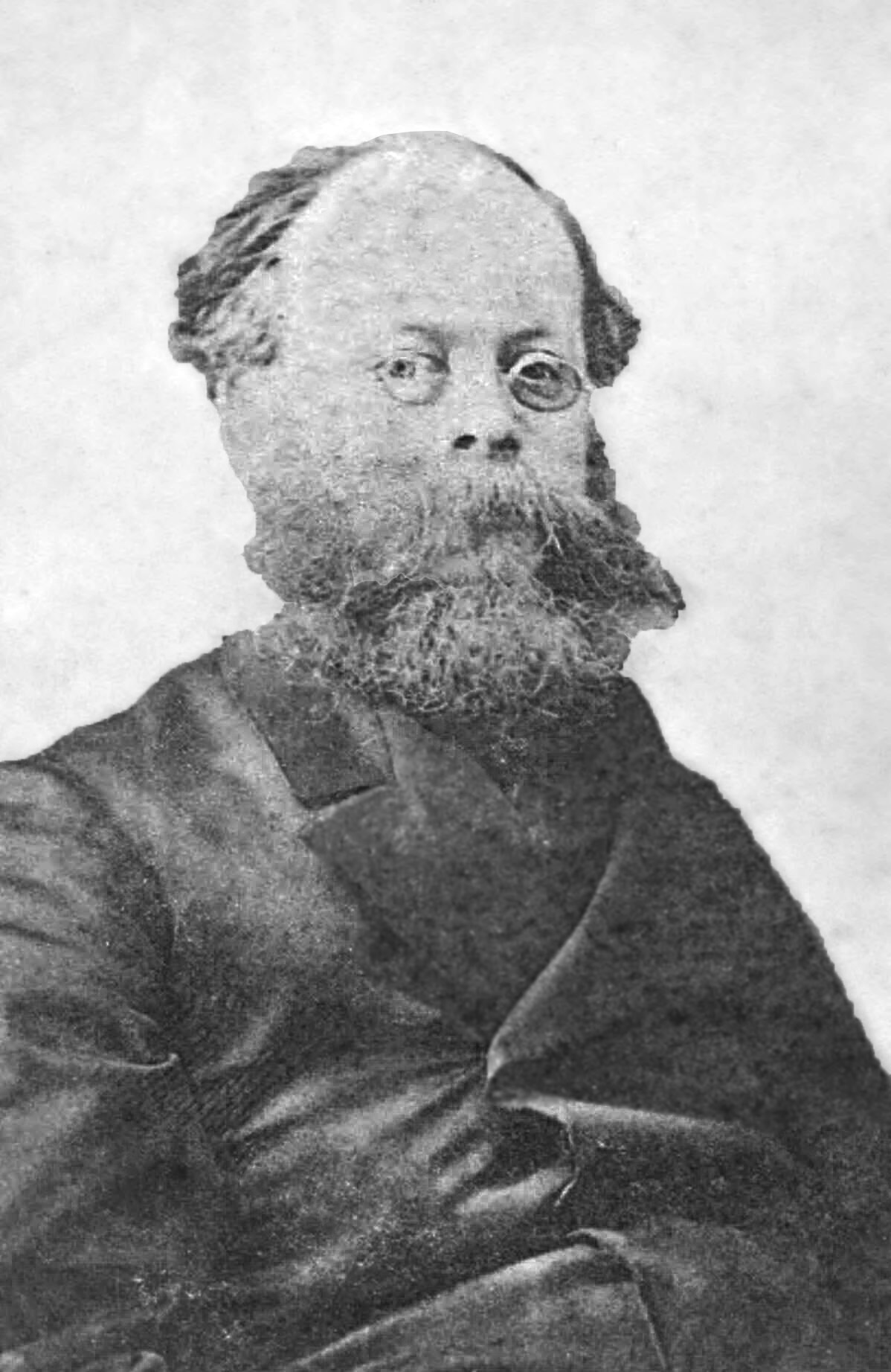 Depicted person: Samuel Plimsoll – British politician